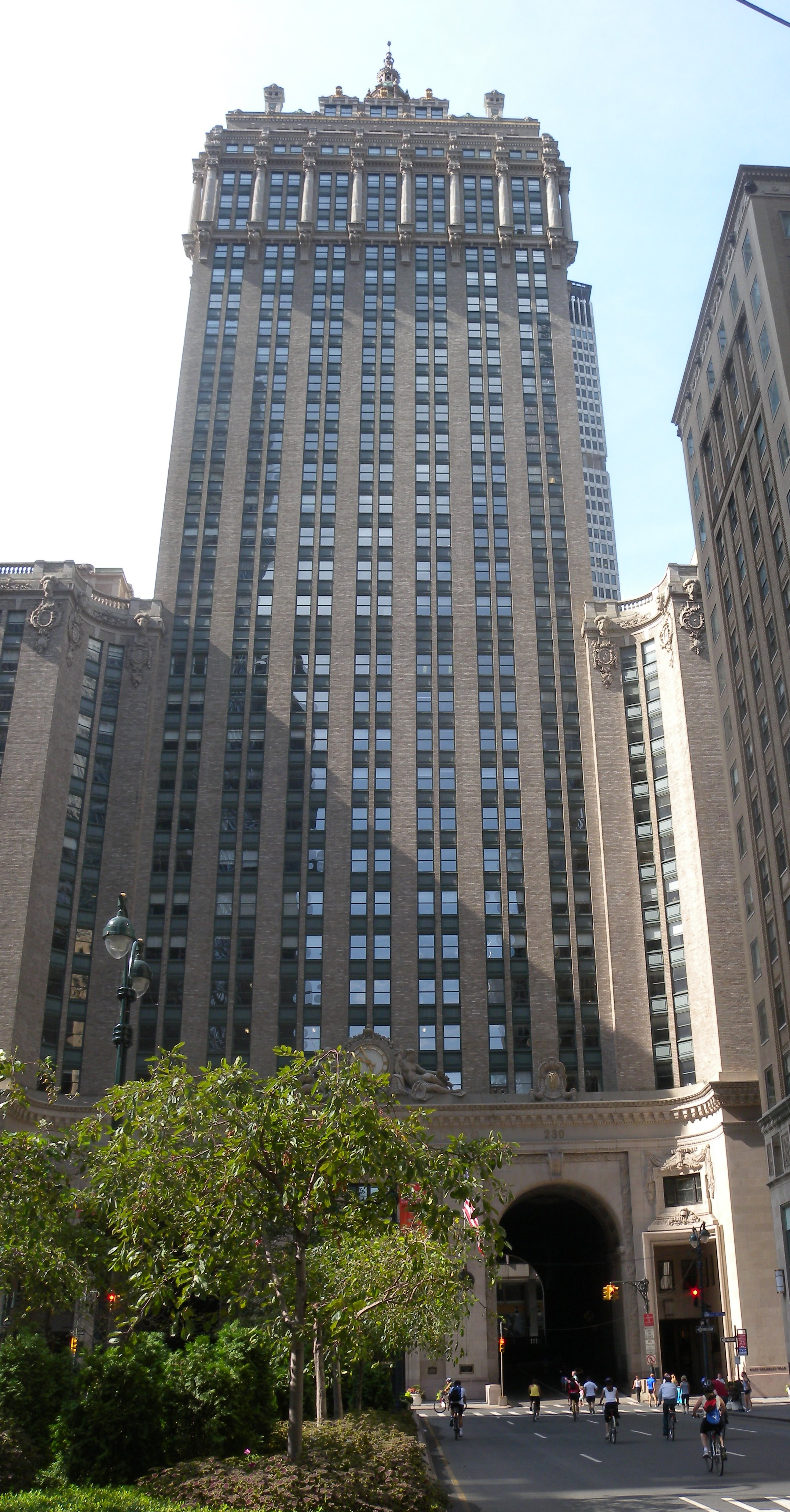 Looking south along Park at NY Central Building from 47th St on a sunny morning.